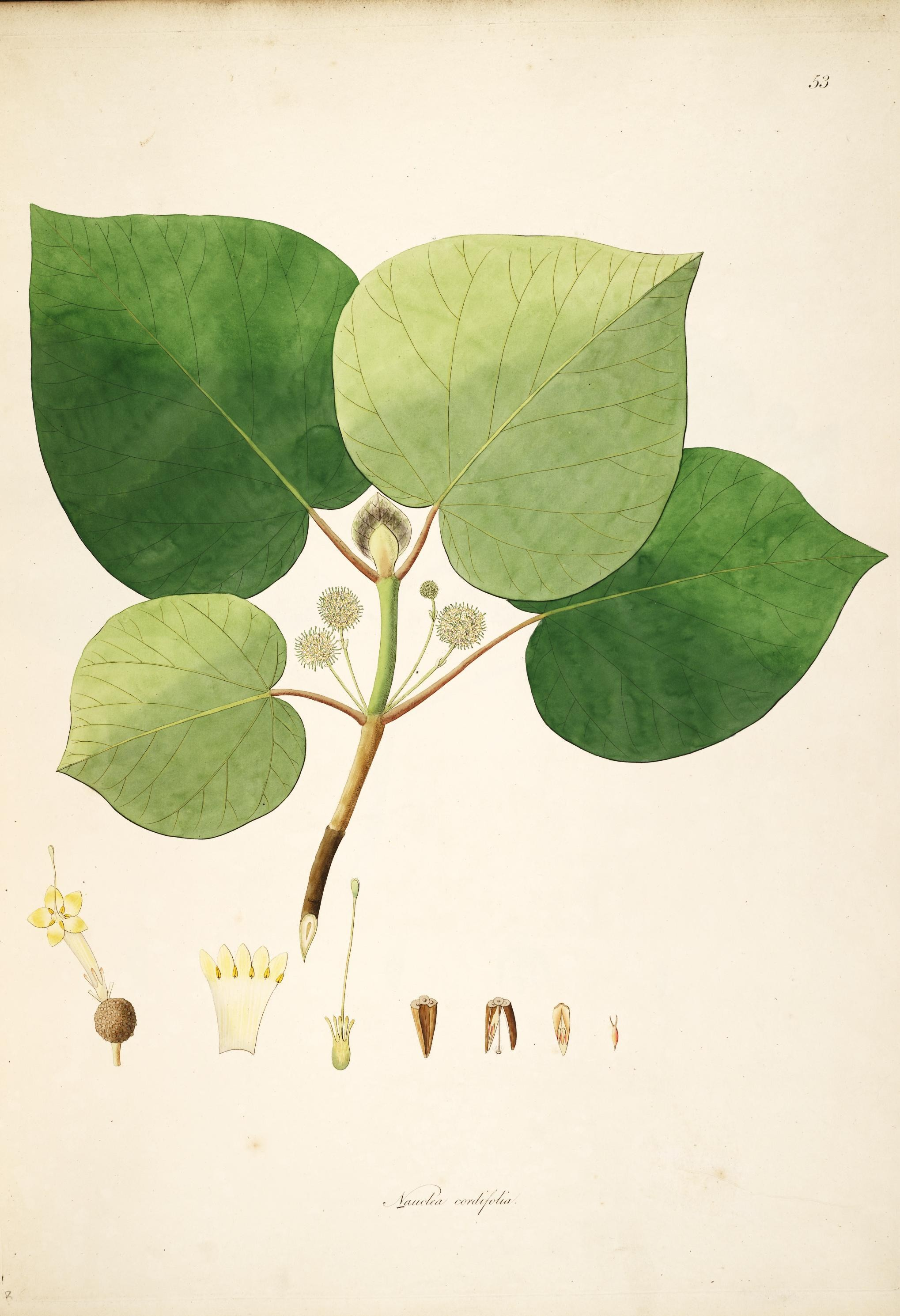 For this 1795 publication with detailed text description on flora in India, see William Roxburgh, Plants of the coast of Coromandel - Volume 1 Coromandel coast stretches from Tamil Nadu to Andhra Pradesh states of India The scientific botanical name is at the bottom of the illustration plate. This 18th century illustration qualifies for PD-Art license.